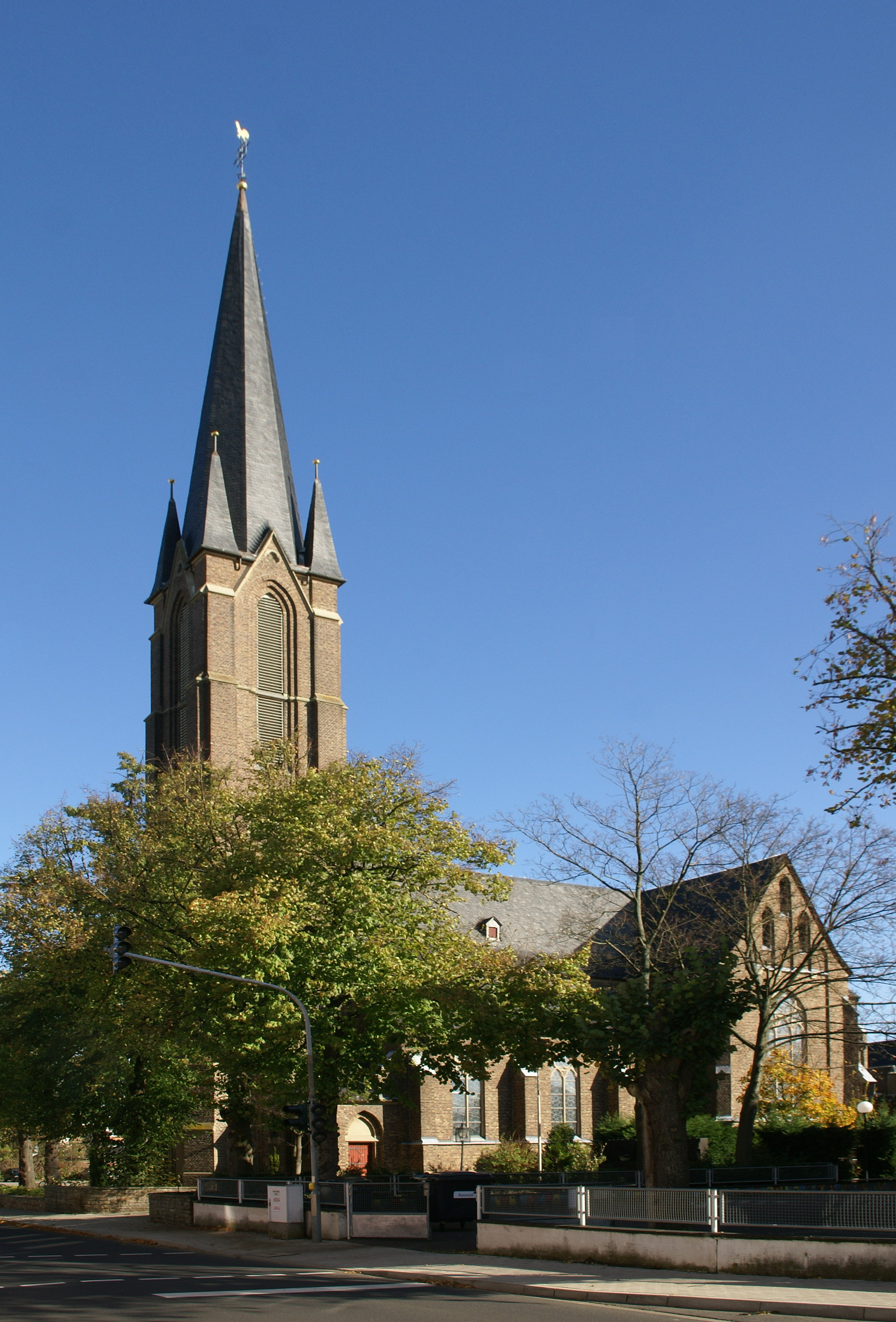 The catholic parish church of St. Petrus and Paulus in Odendorf